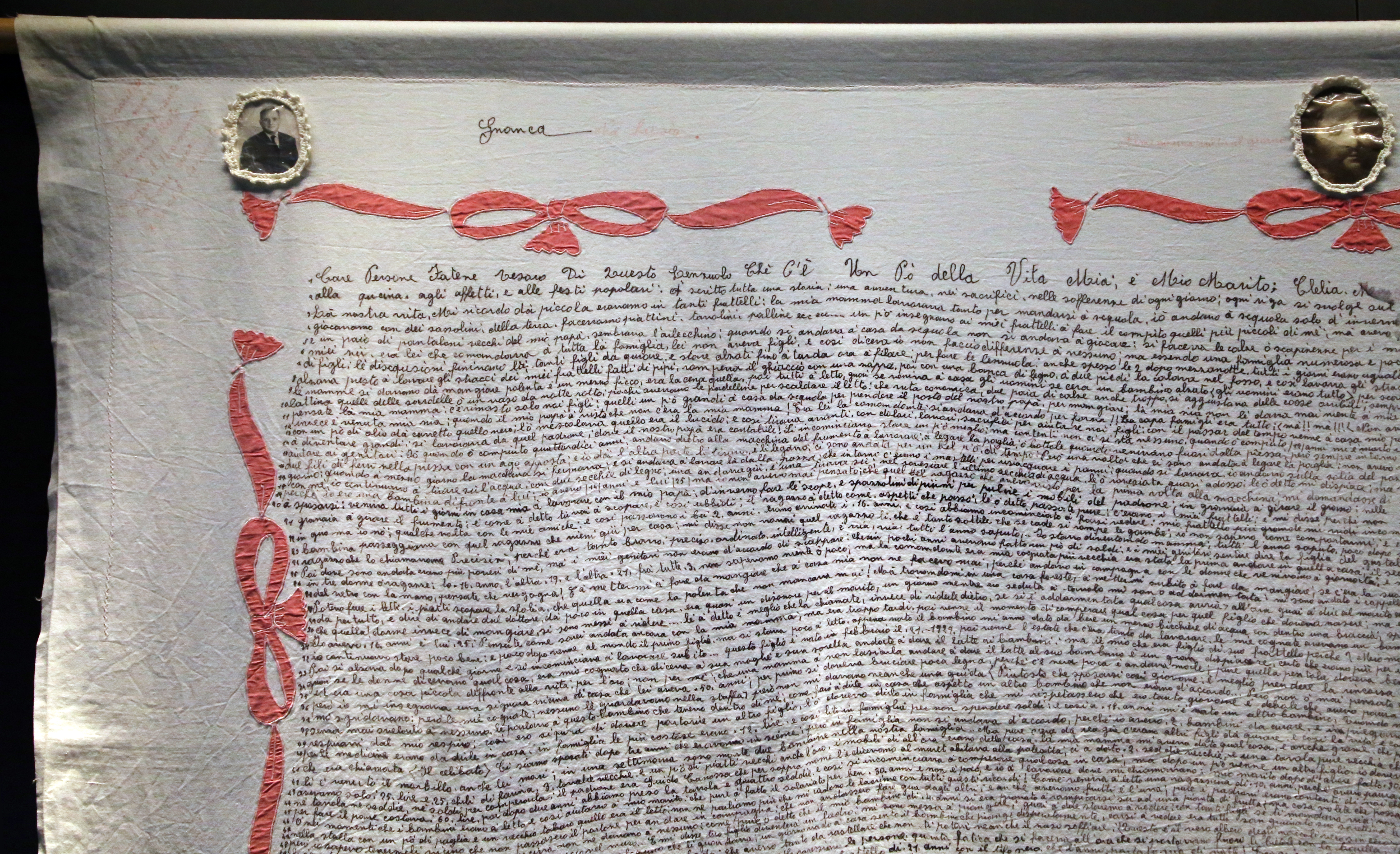 Piccolo museo del diario